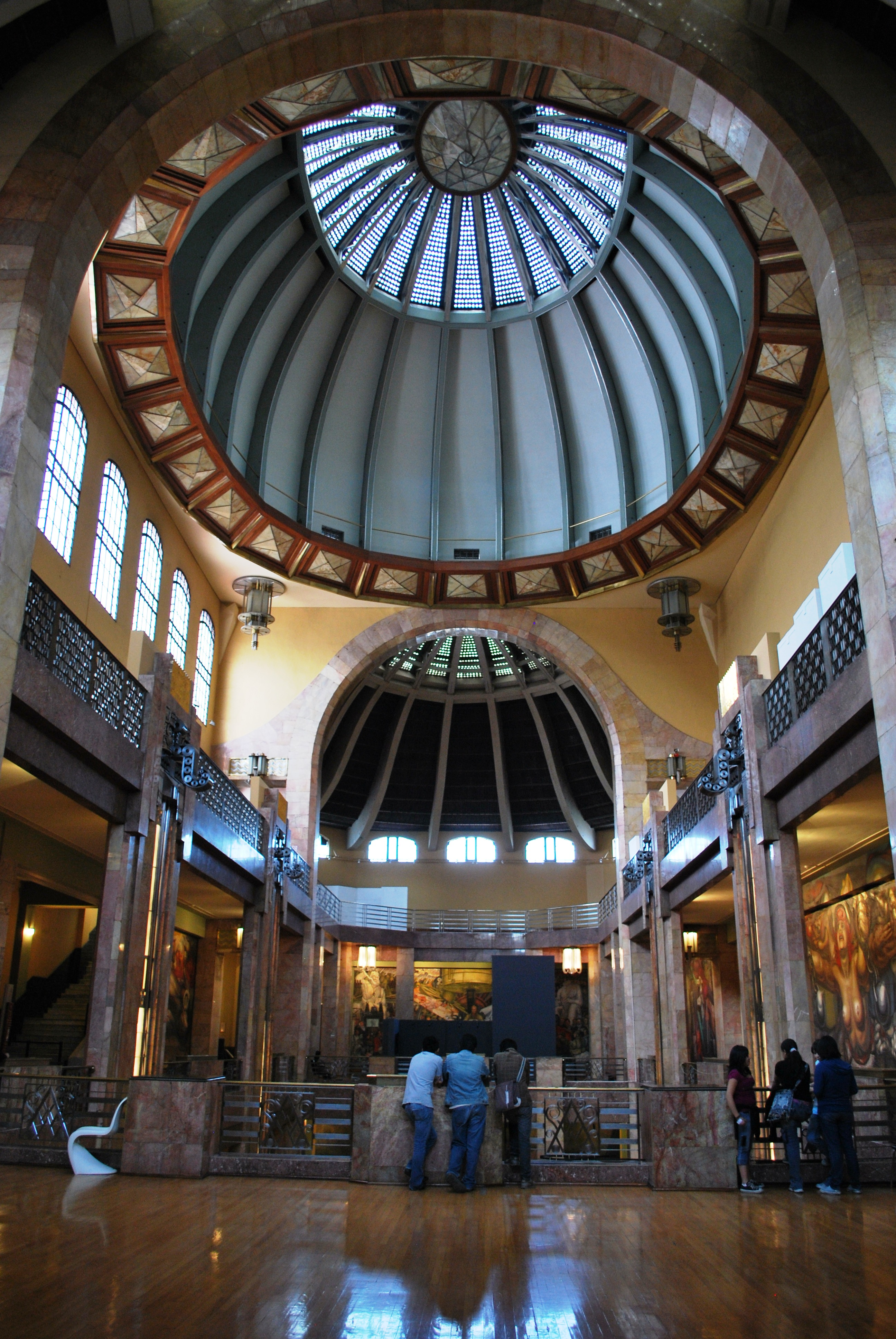 View of second floor and ceiling of the Palacio de Bellas Artes in Mexico City